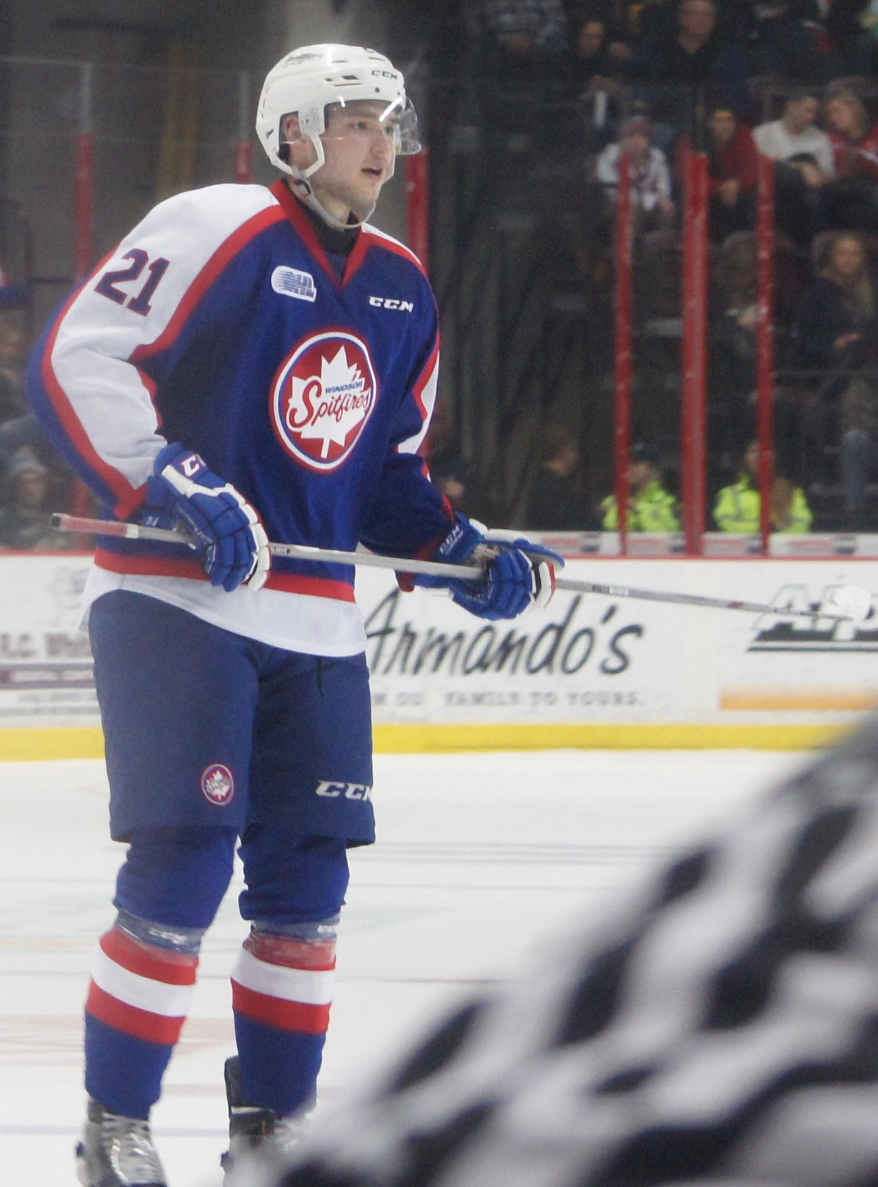 Logan Brown playing for the Windsor Spitfires against the London Knights, Jan. 30, 2016